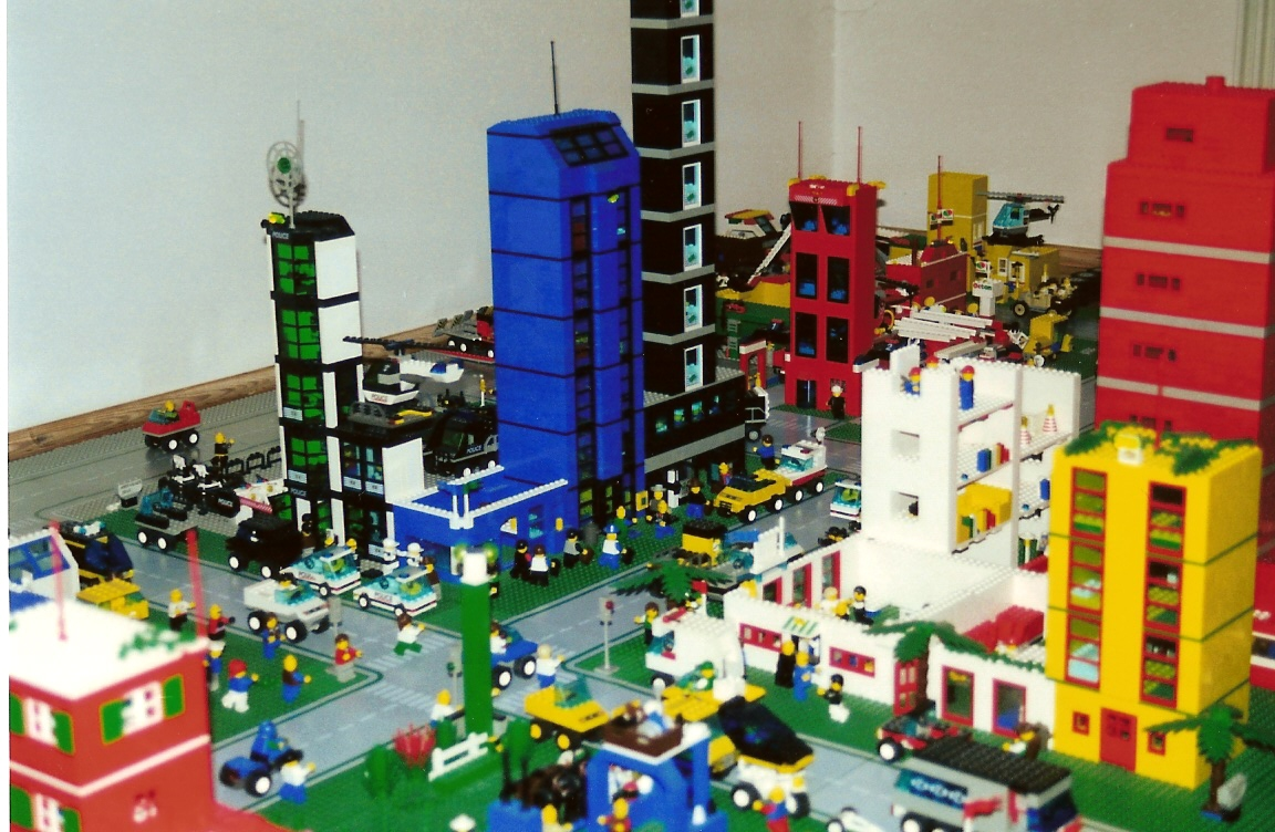 Only a few months before pulling down the city into many boxes - A view over the Lego City I once called Monahan :D picture taken by Michael Monahan - scanned up